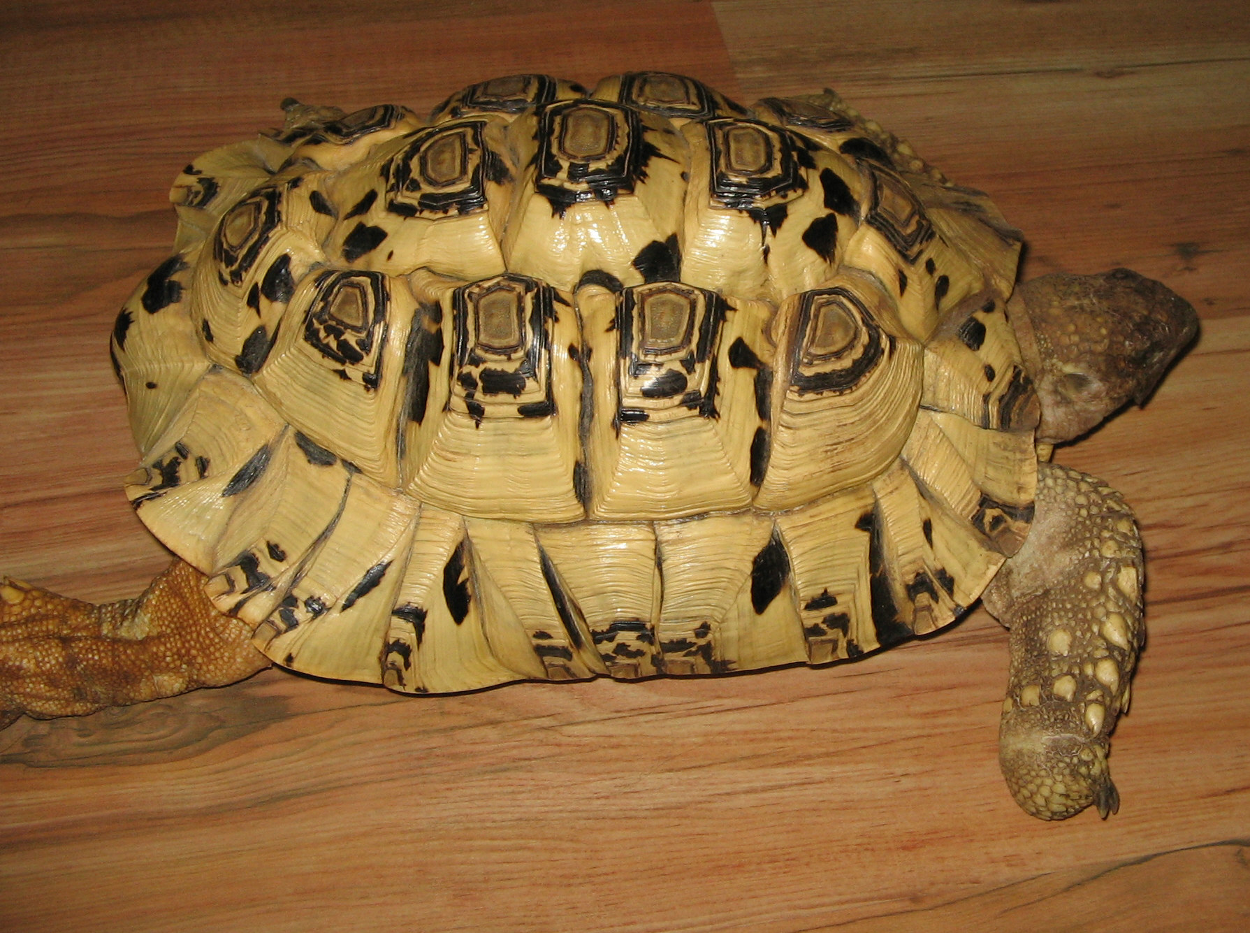 Stigmochelys pardalis babcocki